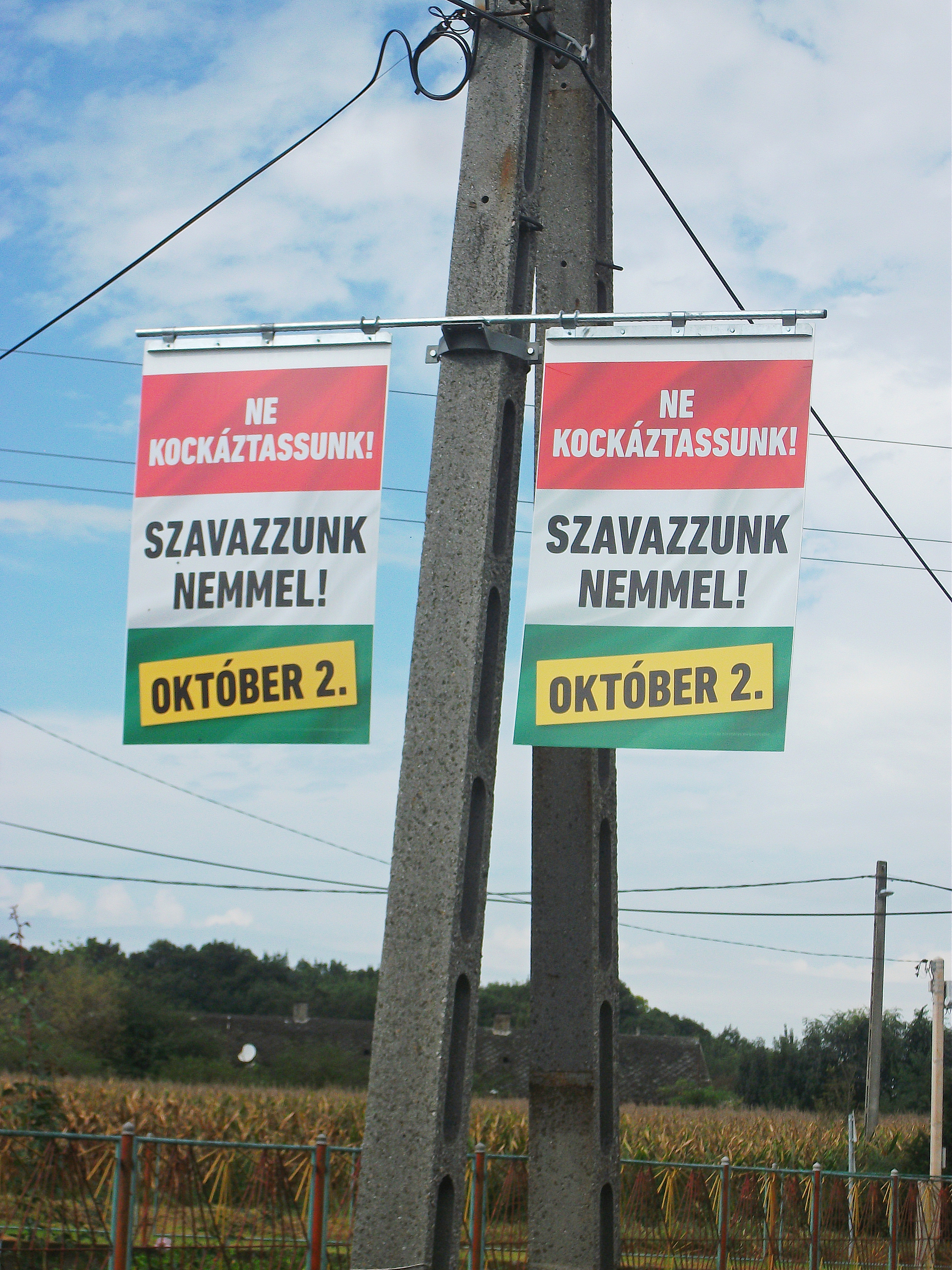 2016 Hungarian Referendum. Posters of the government in the Dózsa György street, Zichyújfalu, Hungary.